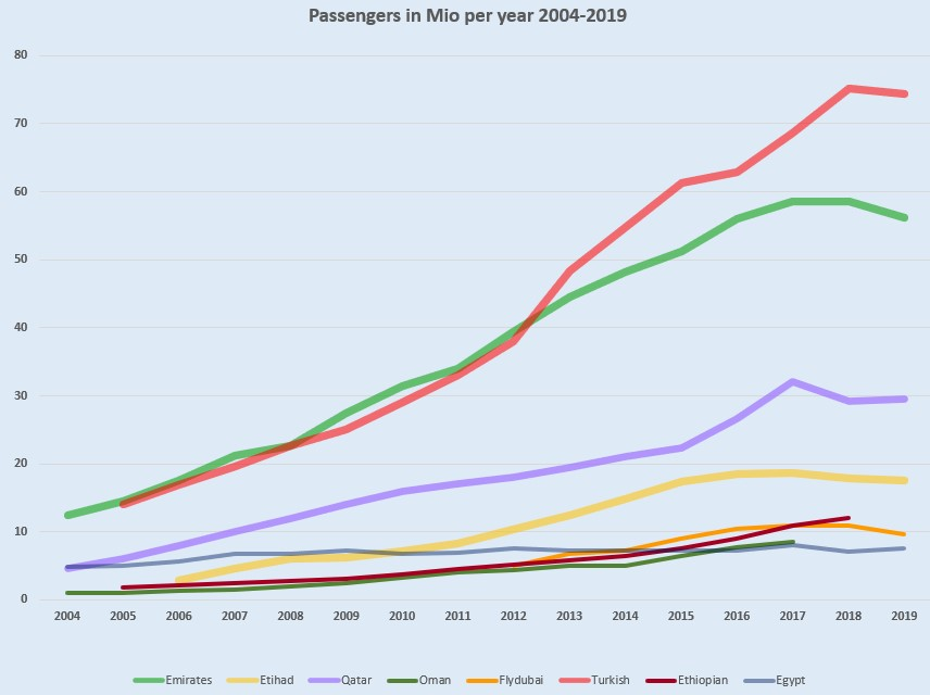 Statistics of Gulf Airlines development